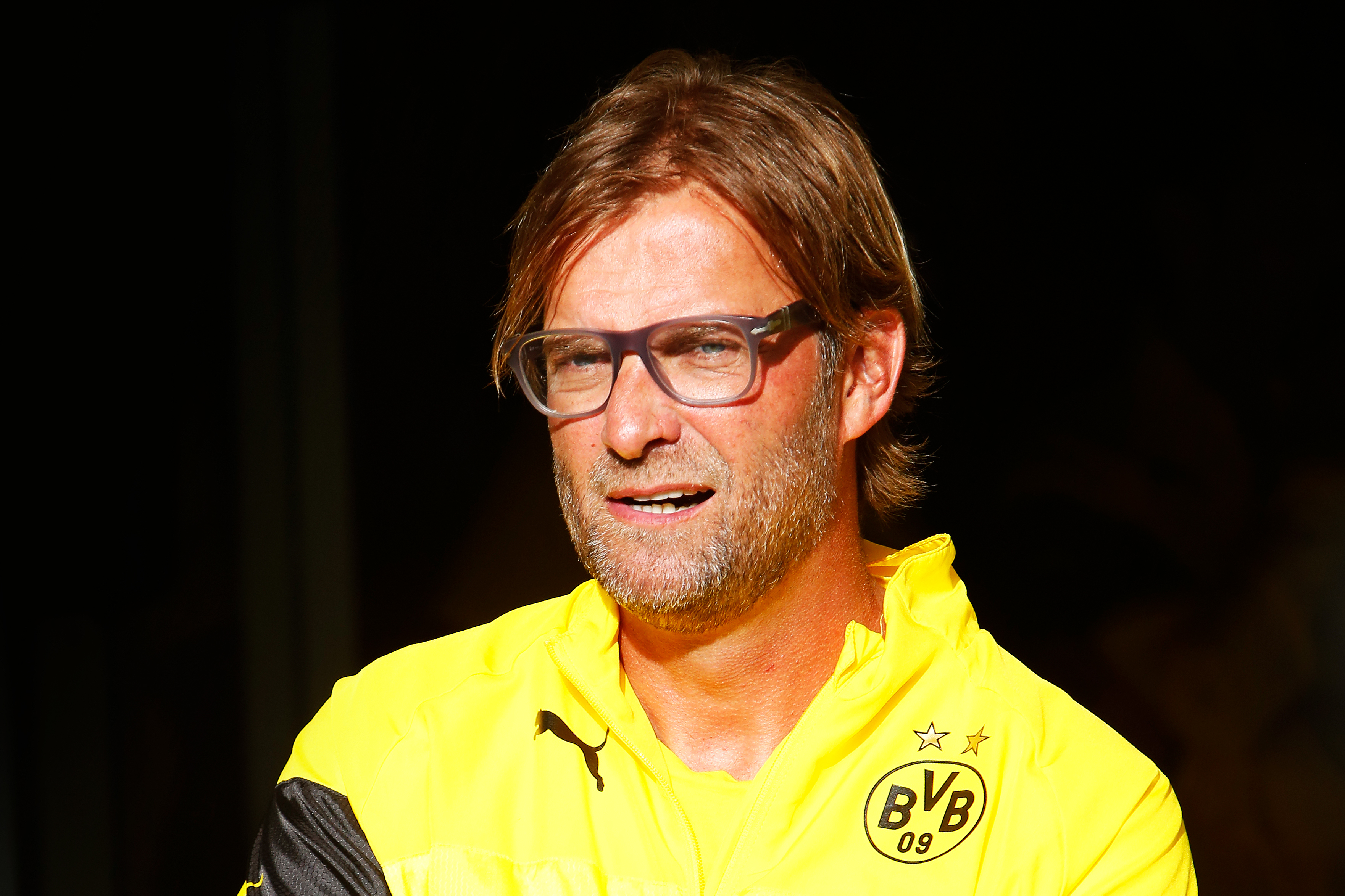 Jürgen Klopp, coach of Borussia Dortmund